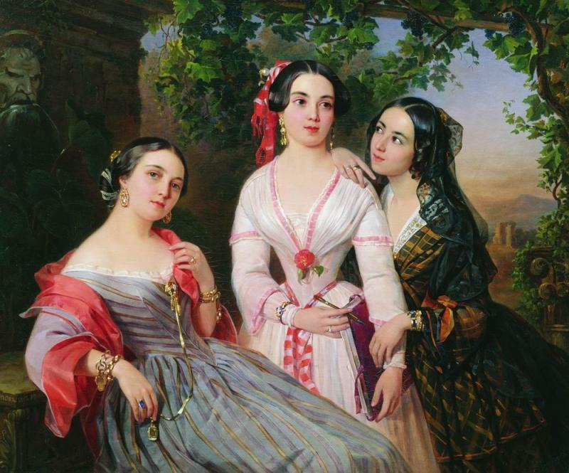 "Group portrait of the Sukhovo-Kobylin sisters". From left to right: Russian writer Evgenia Tur (real name - Countess Elizaveta Vasilyevna Salias De Tournemire nee Sukhovo-Kobylin), and her sisters Sophia and Evdokia.